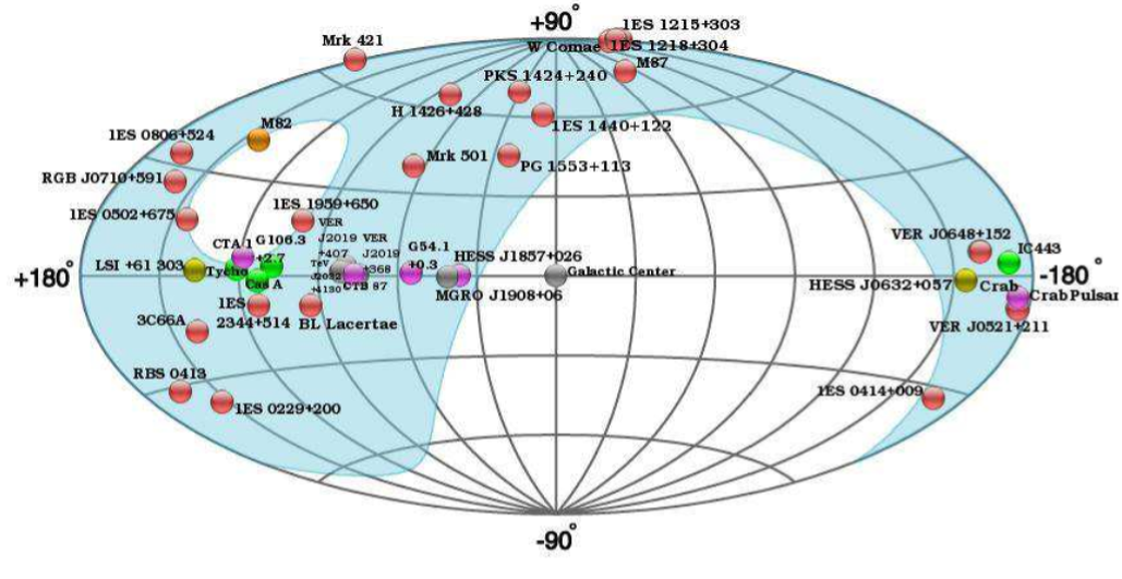 This shows all of the sources viewed by VERITAS as of 2011.